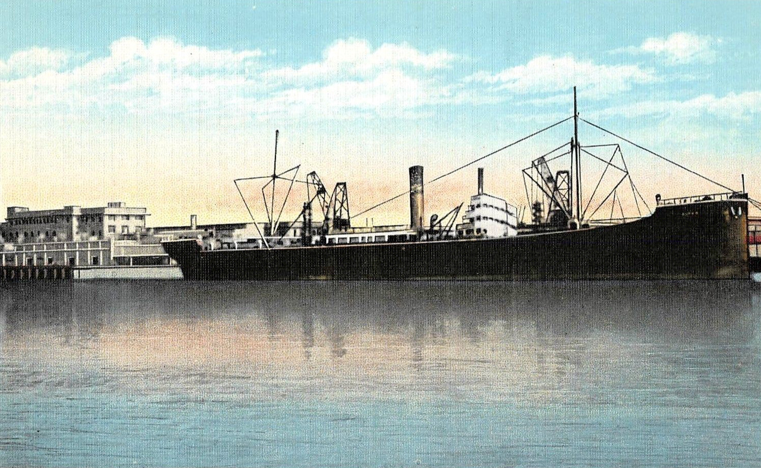 Postcard photo of the Texas Company in Port Arthur, Texas. The card has no copyright markings on it as can be seen in the links above.